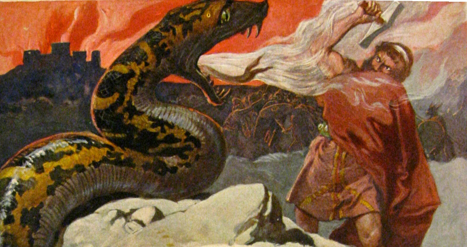 Thor und die Midgardsschlange. A scene from Ragnarök, the final battle between Thor and Jörmungandr.